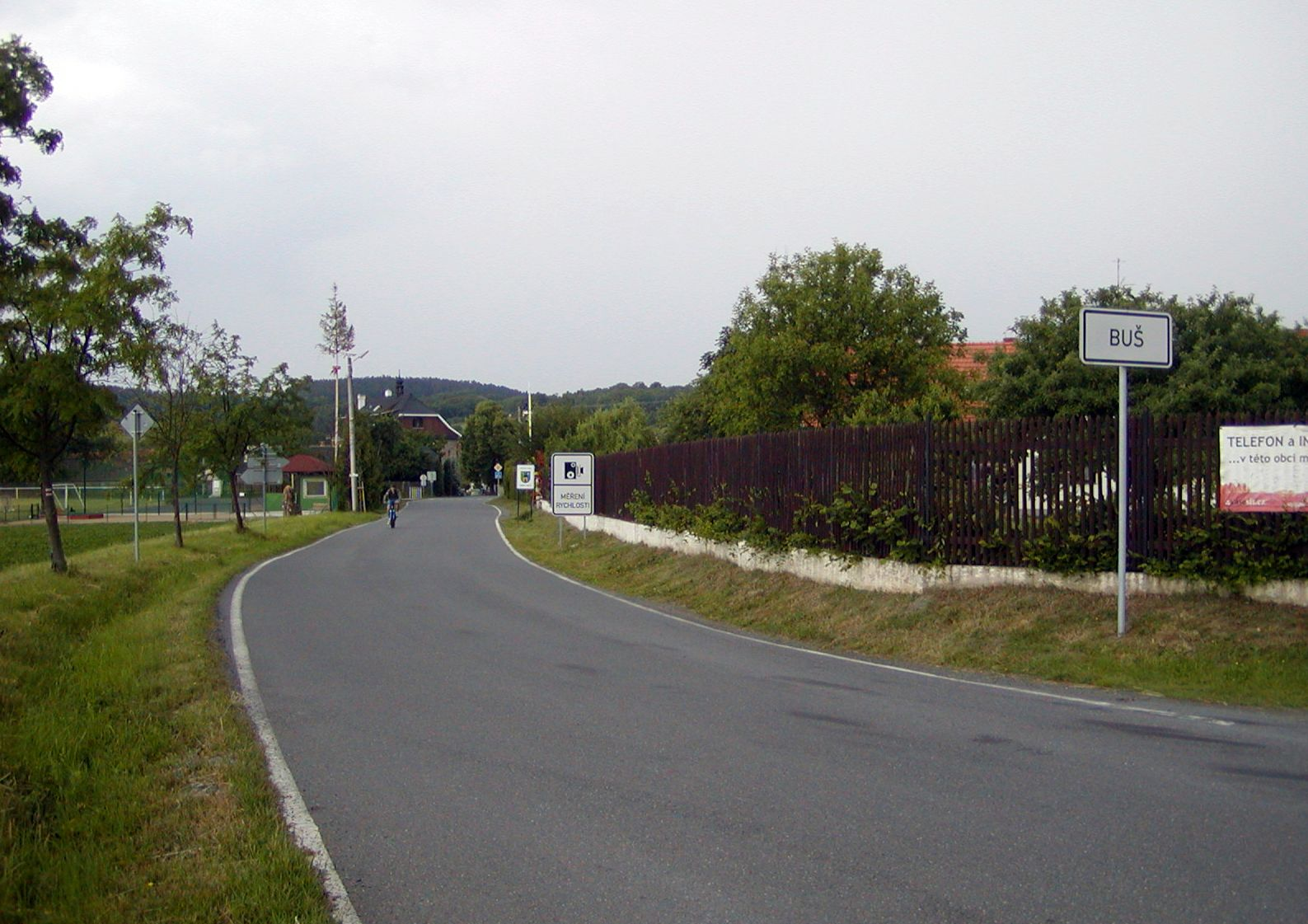 Buš (Prague-West District, CZE)